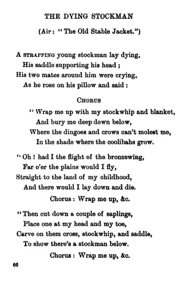 First page of "The Dying Stockmen," a bush ballad published in THE OLD BUSH SONGS: Composed and sung in the Bushranging, Digging, and Overlanding Days, edited by A. B. Paterson, Sydney, Australia: Angus and Robertson, 1905. Printed by Websdale, Shoosmith and Co., Printers, Sydney, Australia.